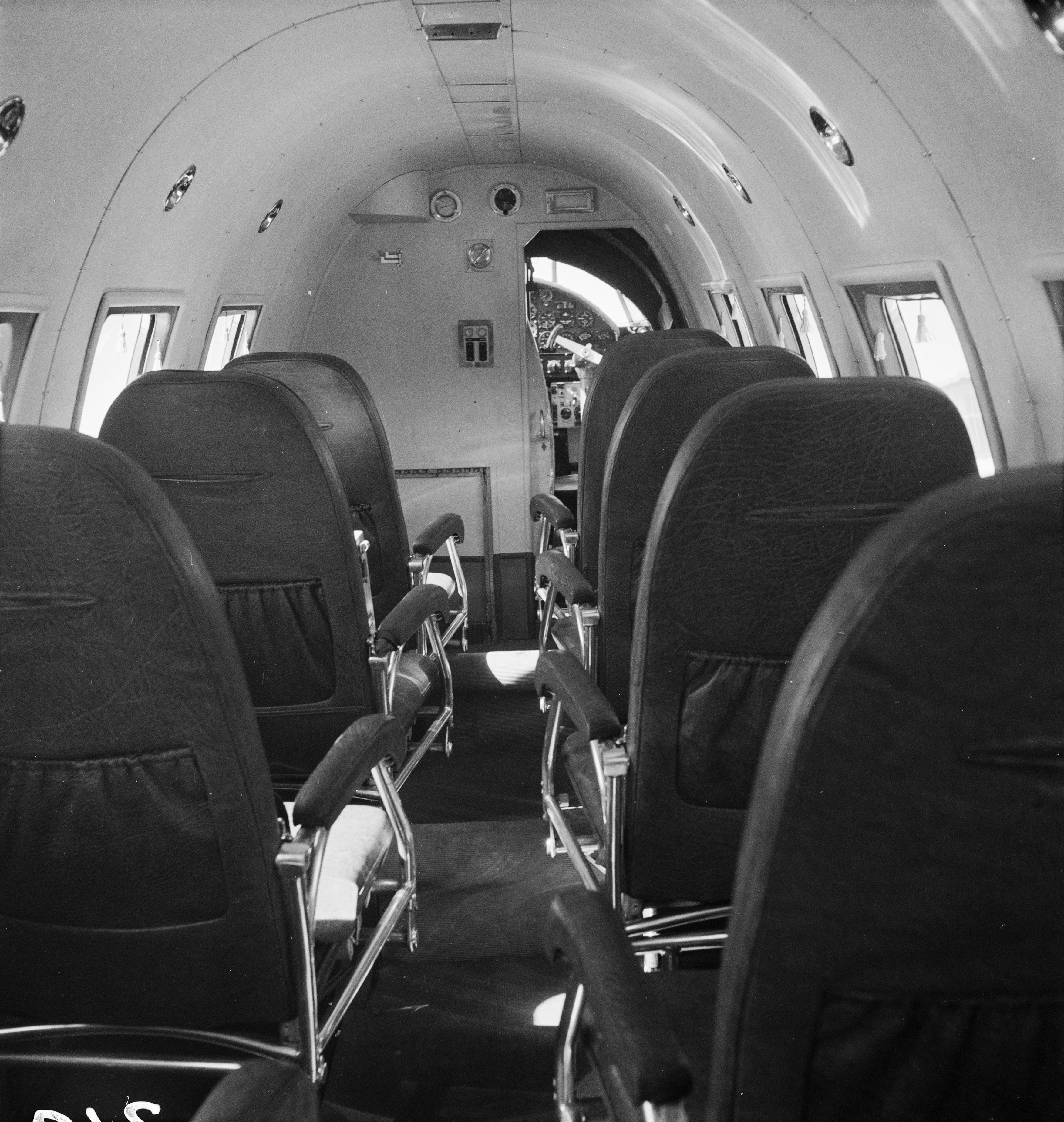 10 Passagier-Sitze